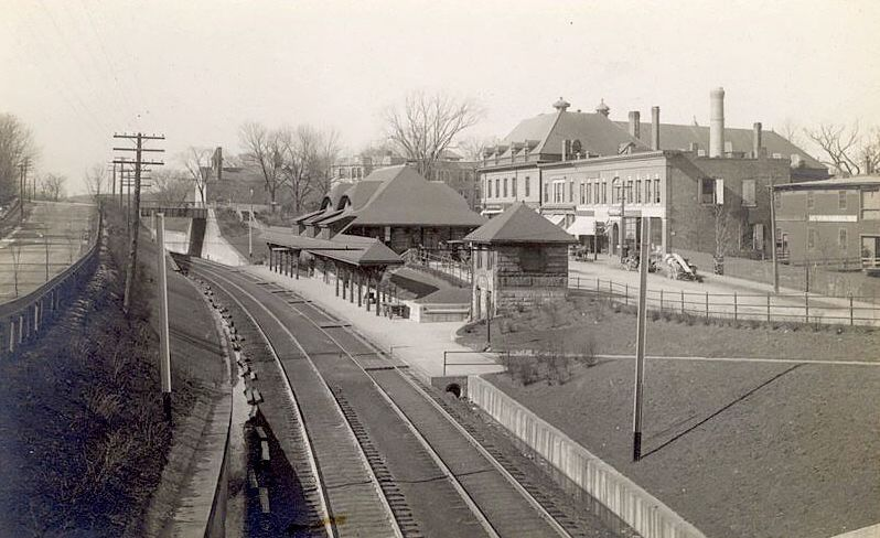 Early divided back postcard of Newton Center station